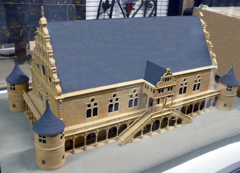 Neues Lusthaus Stuttgart, model in Stadtarchiv